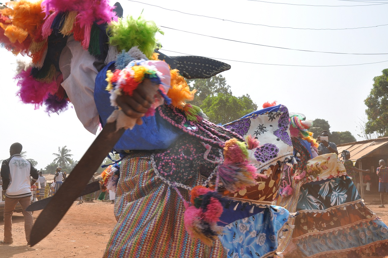 Agila social and economic carnival 2014 - Procession - Masquerade display